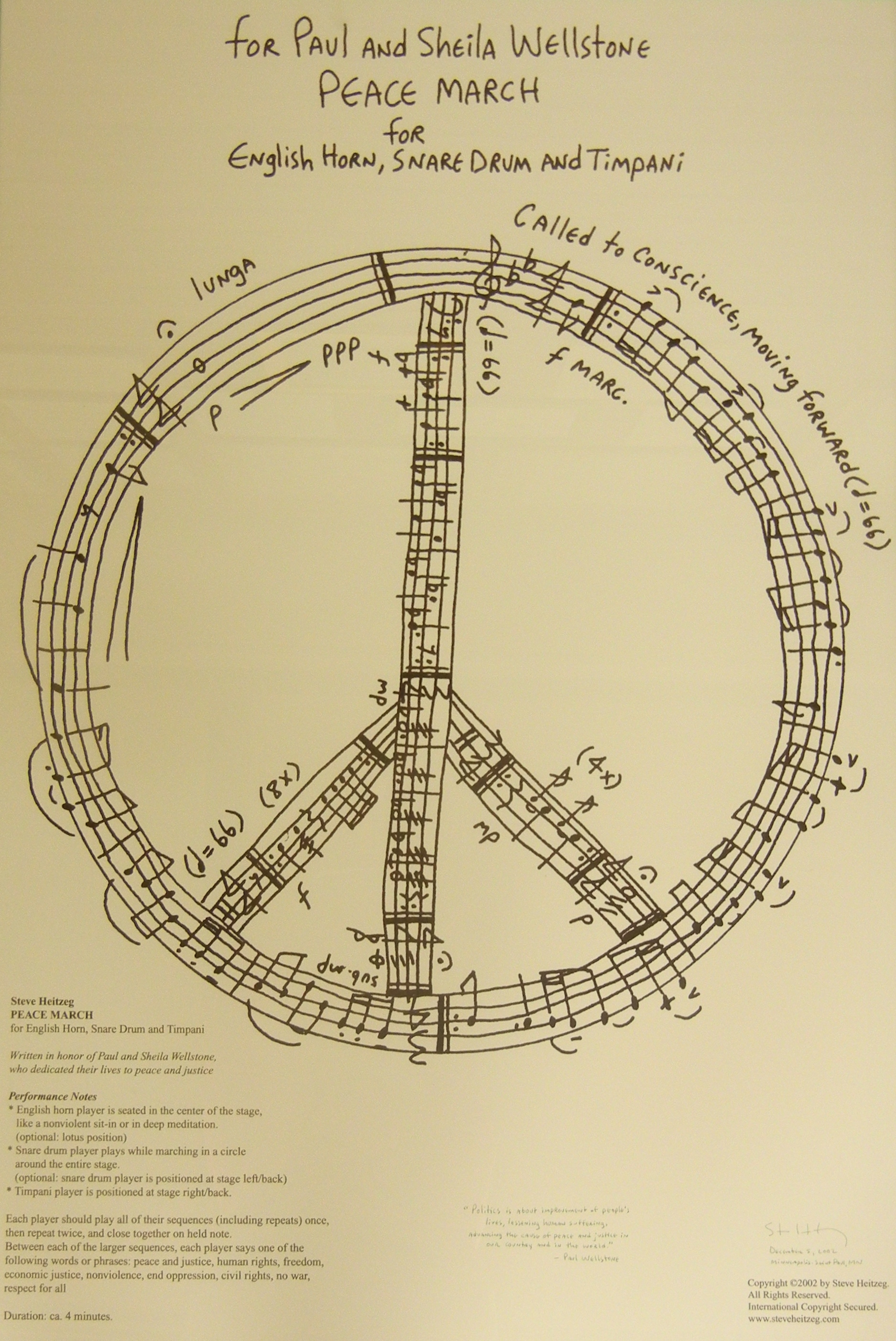 This is a music composition by Steve Heitzeg titled, "Peace March for Paul and Sheila Wellstone."